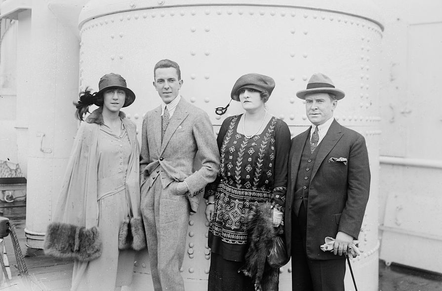 François Coty and Paul Dubonnet in 1918 with their wives